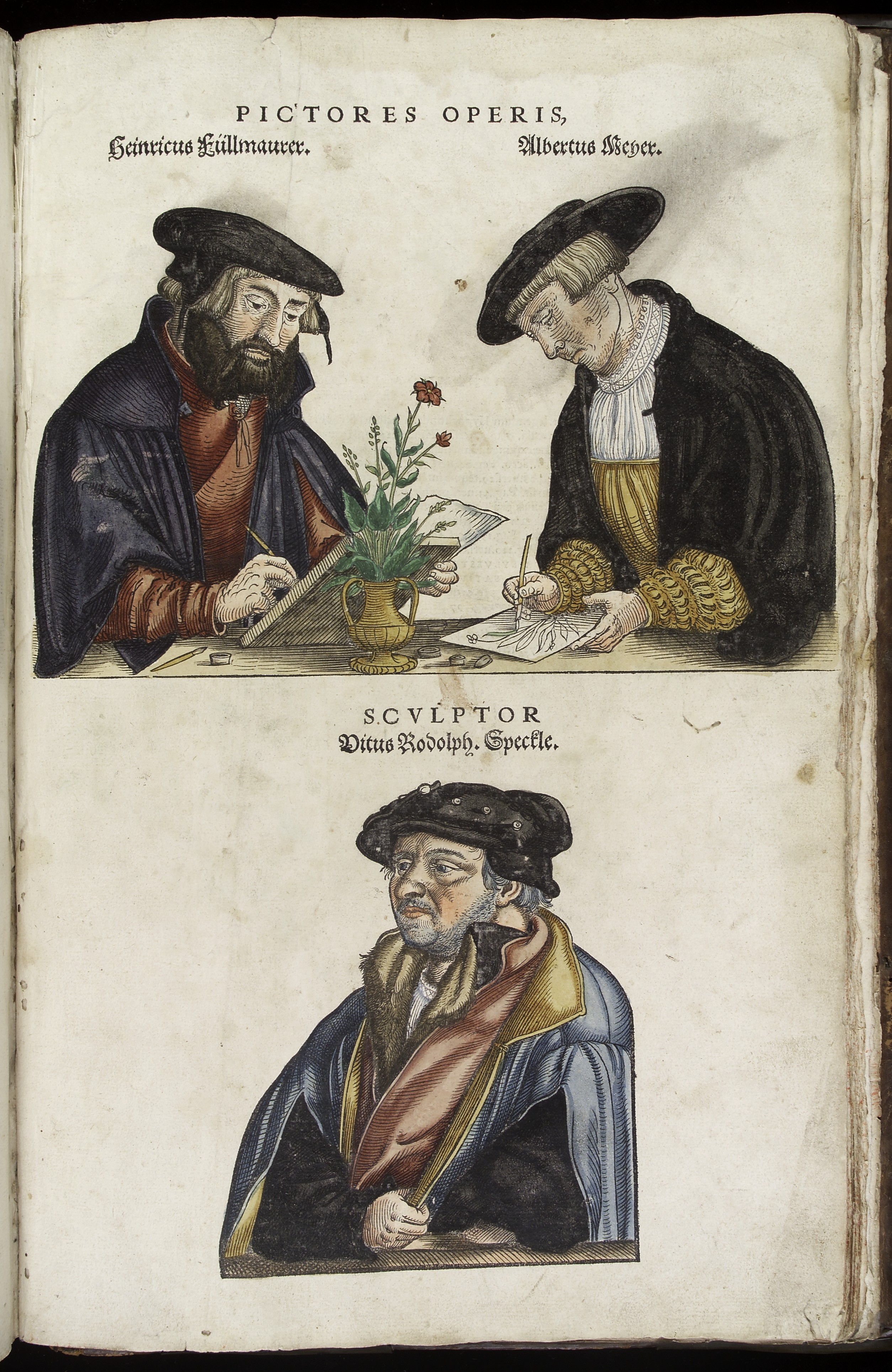 Coloured portraits of the three men responsible for the coloured illsutrations (engravings) featured in Leonhart Fuchs' 'De historia stirpivm commentarii insignes ... adiectis eorvndem vivis plvsqvam quingentis imaginibus ... Accessit ... uocum difficilium et obscurarum passim in hoc opere ocurrentium explicatio ...'. This page is featured at the back and is subtitled 'Pictores Operis' and 'Scvlptor'. The men are identified as 'Heinrich/ Heinricus Füllmaurer', 'Albertus Neher' and 'Ditus Rodolph Spectle' Rare Books Keywords: Plants; Plant; Botanical; Herbals